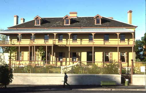 Juniper Hall, Paddington, New South Wales, Sydney, editors collection